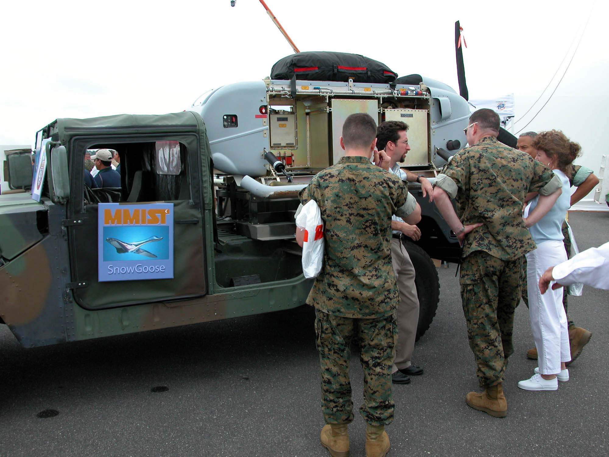 Company representative Sean McCann speaks with Marines about the SnowGoose at the UAV flight demonstration site at Naval Air Station Patuxent River, Md., July 14. The UAV can take off from a Humvee or be dropped from an aircraft.